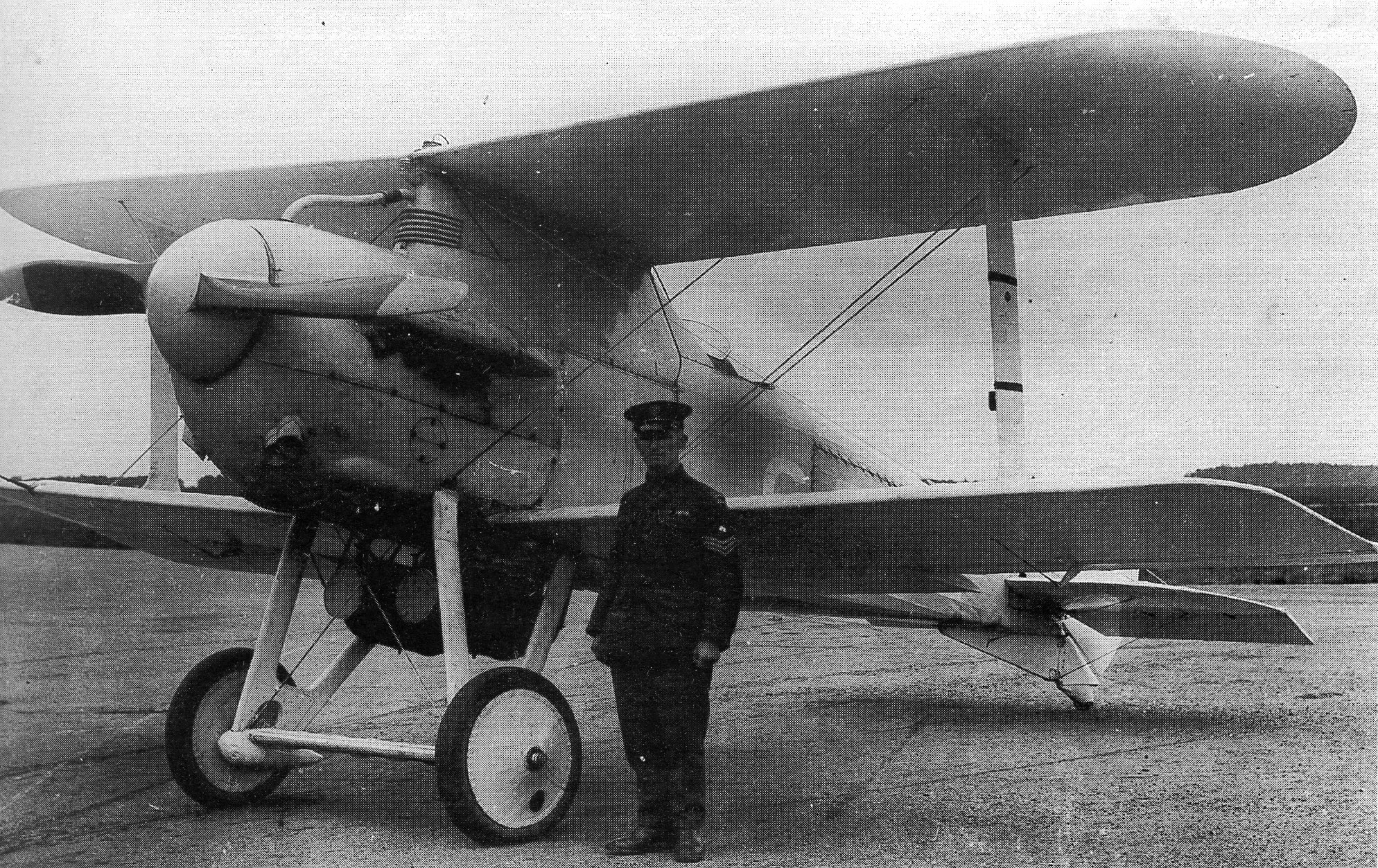 The Gloster Mars I G-EAXZ , the only Mk I. Later renamed Gloster I. Set a British speed record of 196 mph (315 km/h) This December 1921 image shows it with twin Hamblin radiators for its Napier Lion II engine. Late used on floats as J7284 to train Schneider Trophy pilots for the 1925 and 1927 contests.